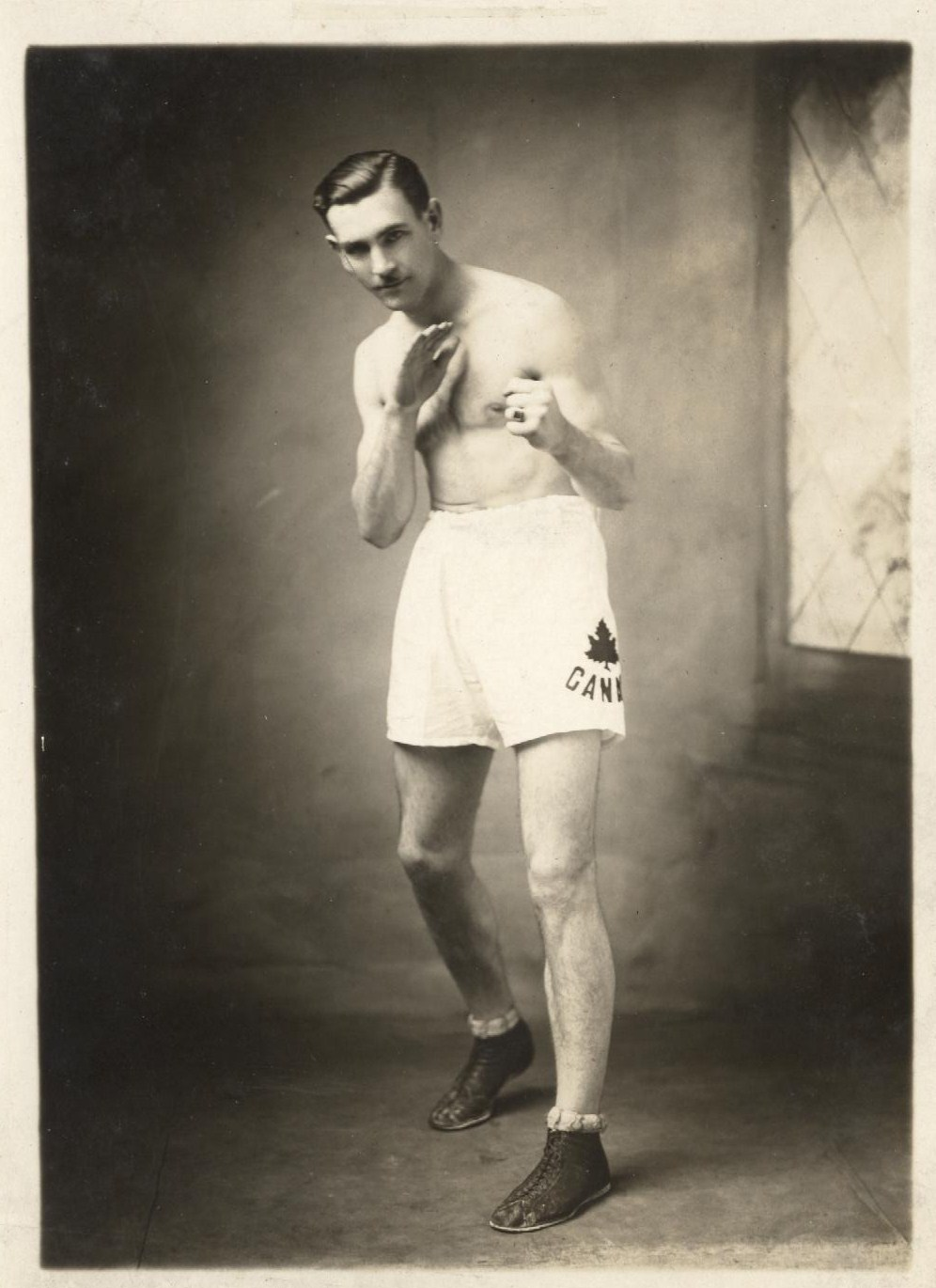 Ray Smillie - Olympic Bronze Medalist Boxing Amsterdam 1928